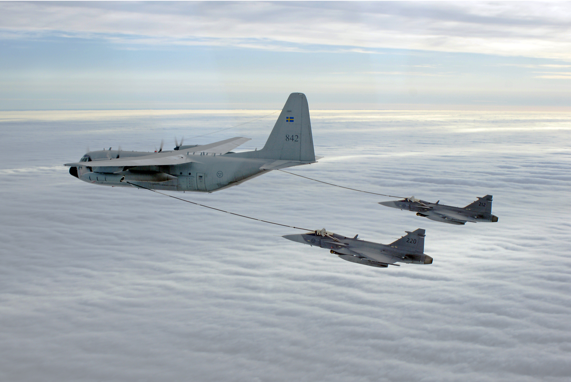 Saab JAS-39 of the Swedish Air Force undergoing inflight refuelling from a TP 84 Hercules